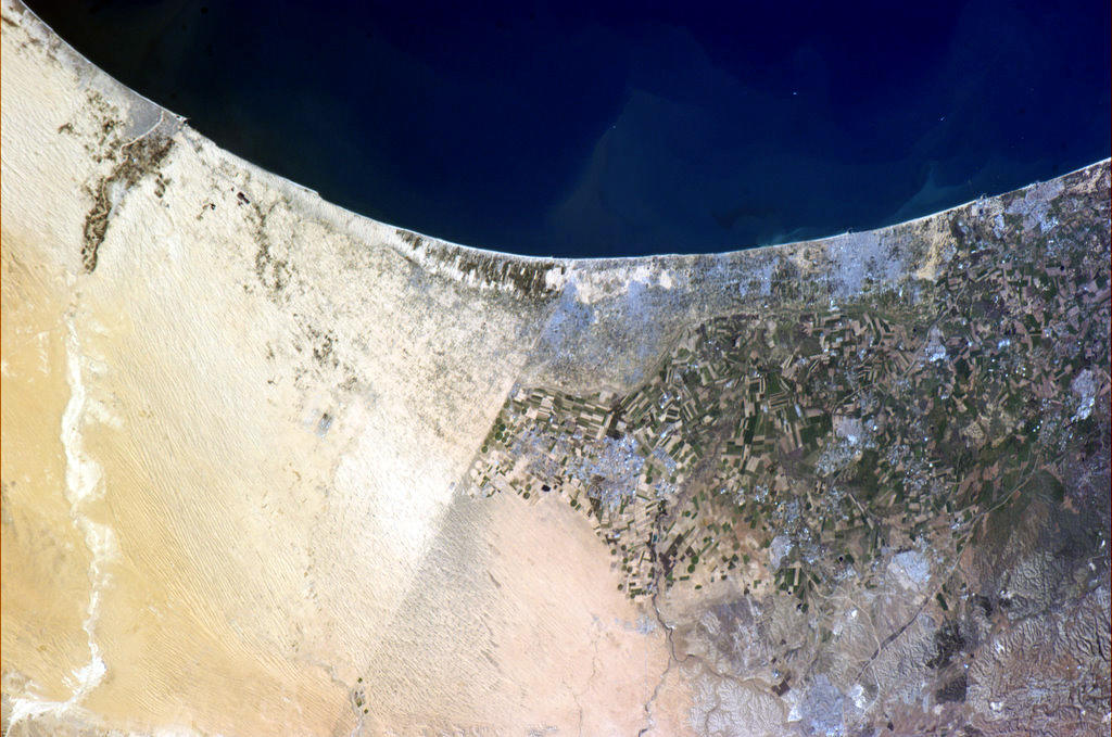 The border between Egypt (on the left side) and Gaza and Israel (on the right side) clearly visible from space. Pictured from the International Space Station. The city of Rafah, split by the border into an Egyptian part and a Gazan part, is located at the center of the image.